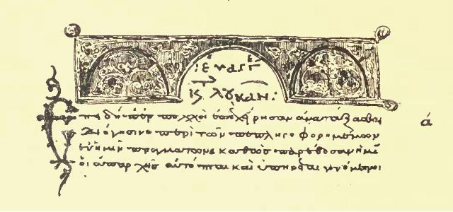 facsimile edition of the codex with text Luke 1:1-2; it was published in: in: F.H.A. Scrivener, "A Plain Introduction to the Criticism of the New Testament", 4th edition, London 1894.